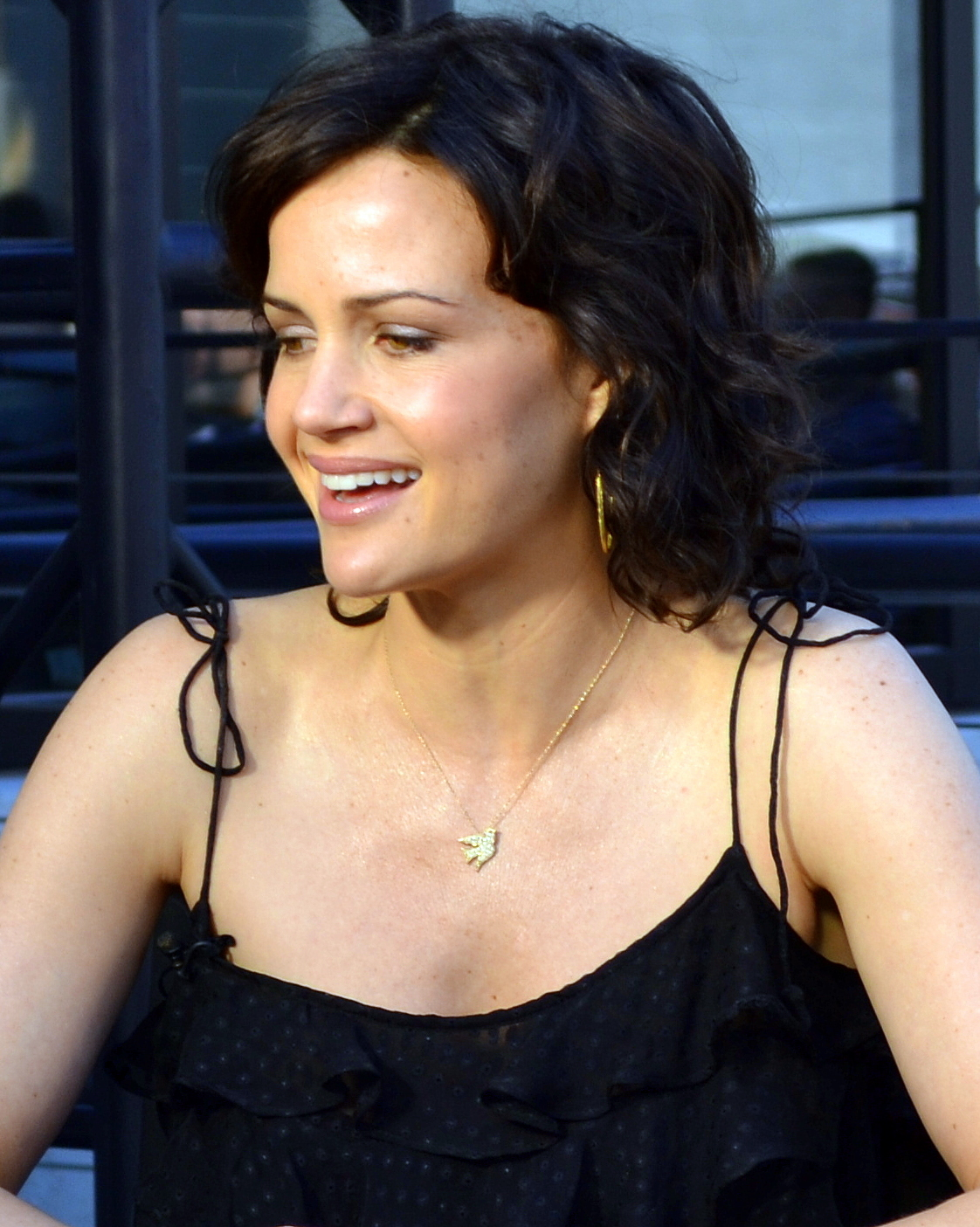 Carla Gugino Giving an Interview to CNN 2011.